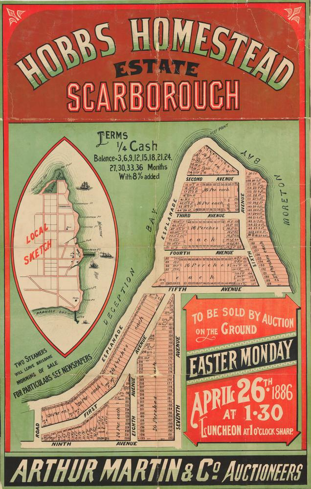 Estate map of Hobbs Homestead Estate, Scarborough, Queensland, 1886 Estate map showing allotments to be sold on the 26th March 1886 by Arthur Martin & Co., Auctioneers. The plan includes a local sketch. The allotments covered the area adjacent to the Esplanade, Ninth Avenue, Seventh Avenue, Sixth Avenue and Fifth Avenue, Scarborough.